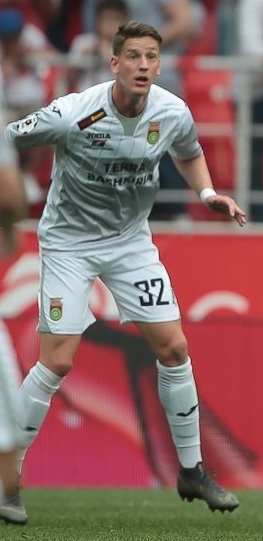 Andrés Vombergar with FC Ufa in a game against FC Spartak Moscow.